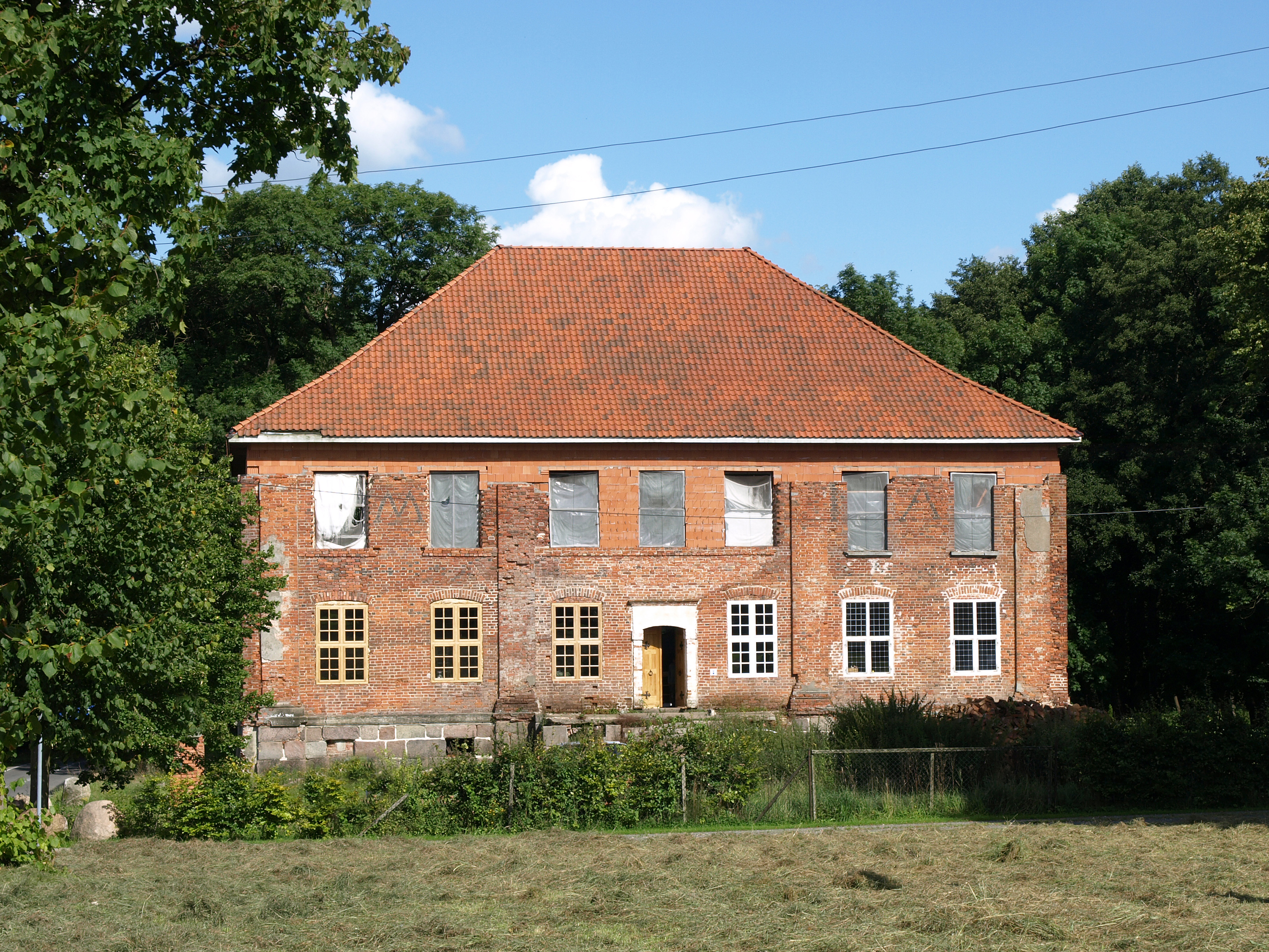 Gutshaus in Goldenbow